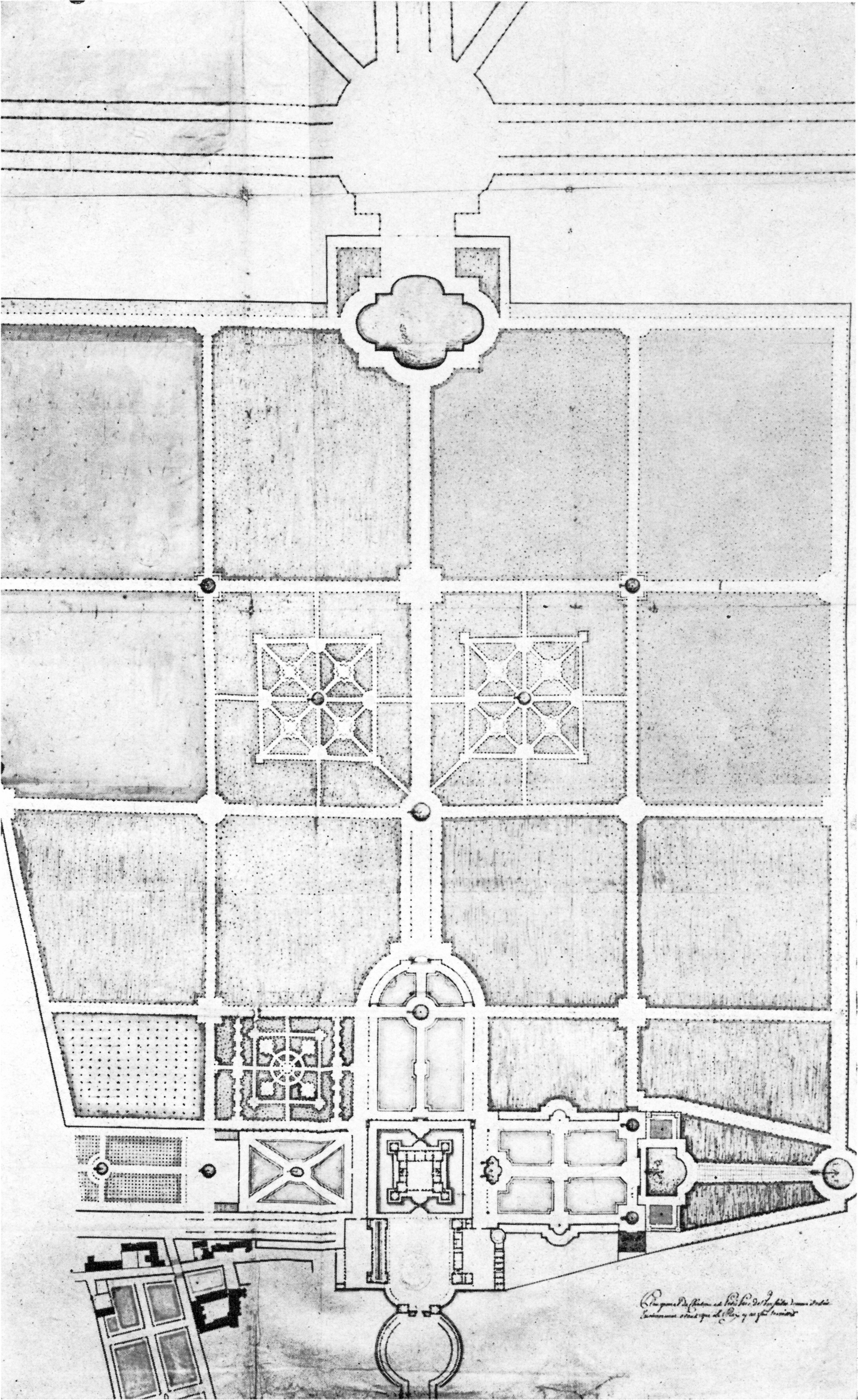 An anonymous early (c. 1663) plan of the gardens of Versailles as designed by André Le Nôtre. The plan shows Le Vau's 1662 widened forecourt with new service wings for stables and kitchens and his orangery, built in 1663 (Hazlehurst, Gardens of Illusion, 1980, pp. 62–64). Also reproduced in Berger, In the Garden of the Sun King, 1985, Fig. 3 (Credit: Bibliothèque de l'Institut de France, Paris, MS. 1307-54).